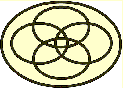 The developers of this symbol are activists wishing to promote awareness that multiple personality (Dissociative Identity Disorder) is a real condition and that multiples can live productive lives. The symbol is meant, like Gerald Holtom's famous peace symbol, to be used freely and without copyright or trademark restrictions of any kind. It can be changed, colored, used on merchandise, etc. Mental health professionals now often guide DID clients to find ways to coexist and develop crisis management skills, rather than integrating differentiated which can leave the client feeling that these parts have "died".[1]